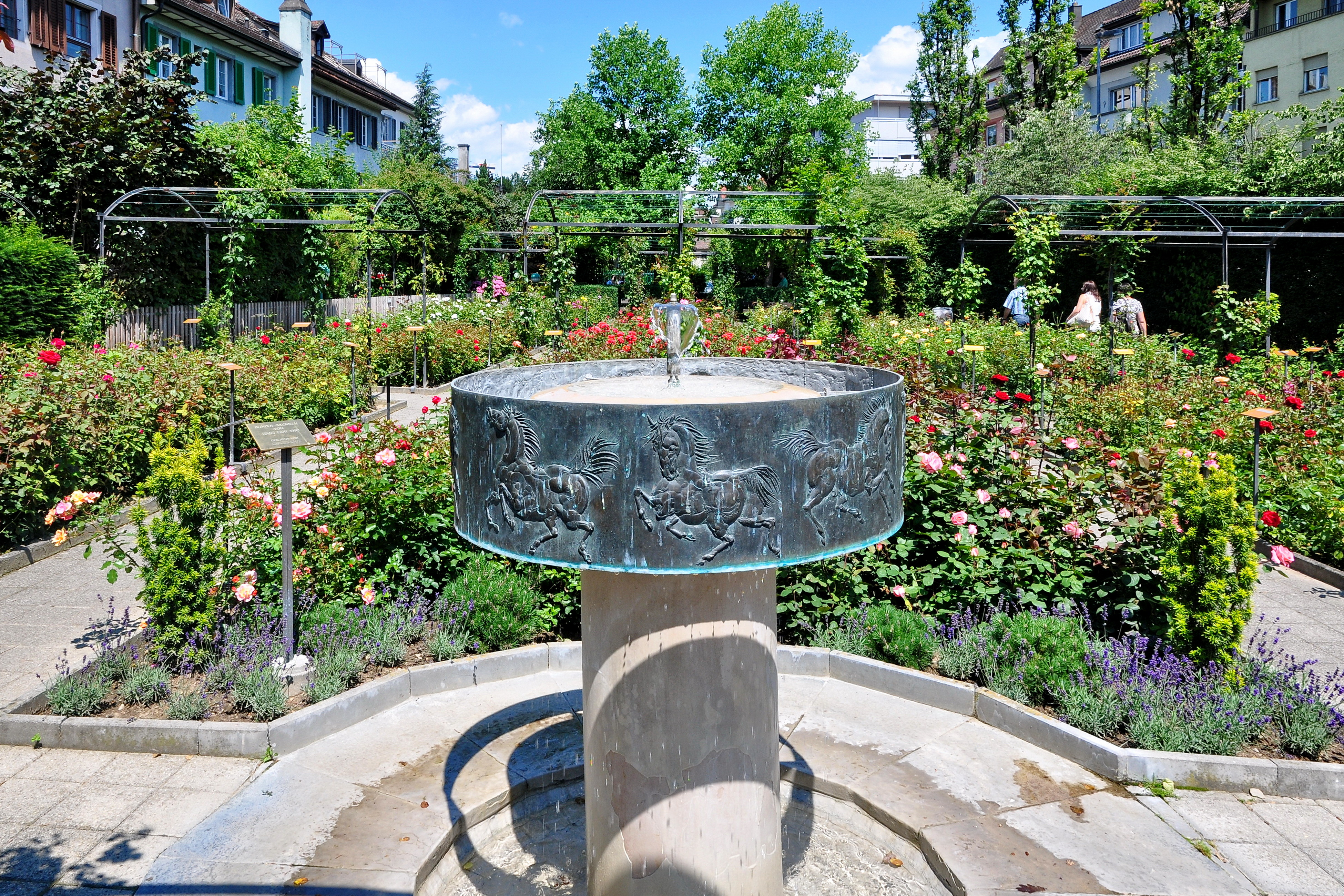 Rapperswil (Switzerland) : Duftrosengarten for blind people, Circus Knie fountain created by the Swiss artist Hans Erni.